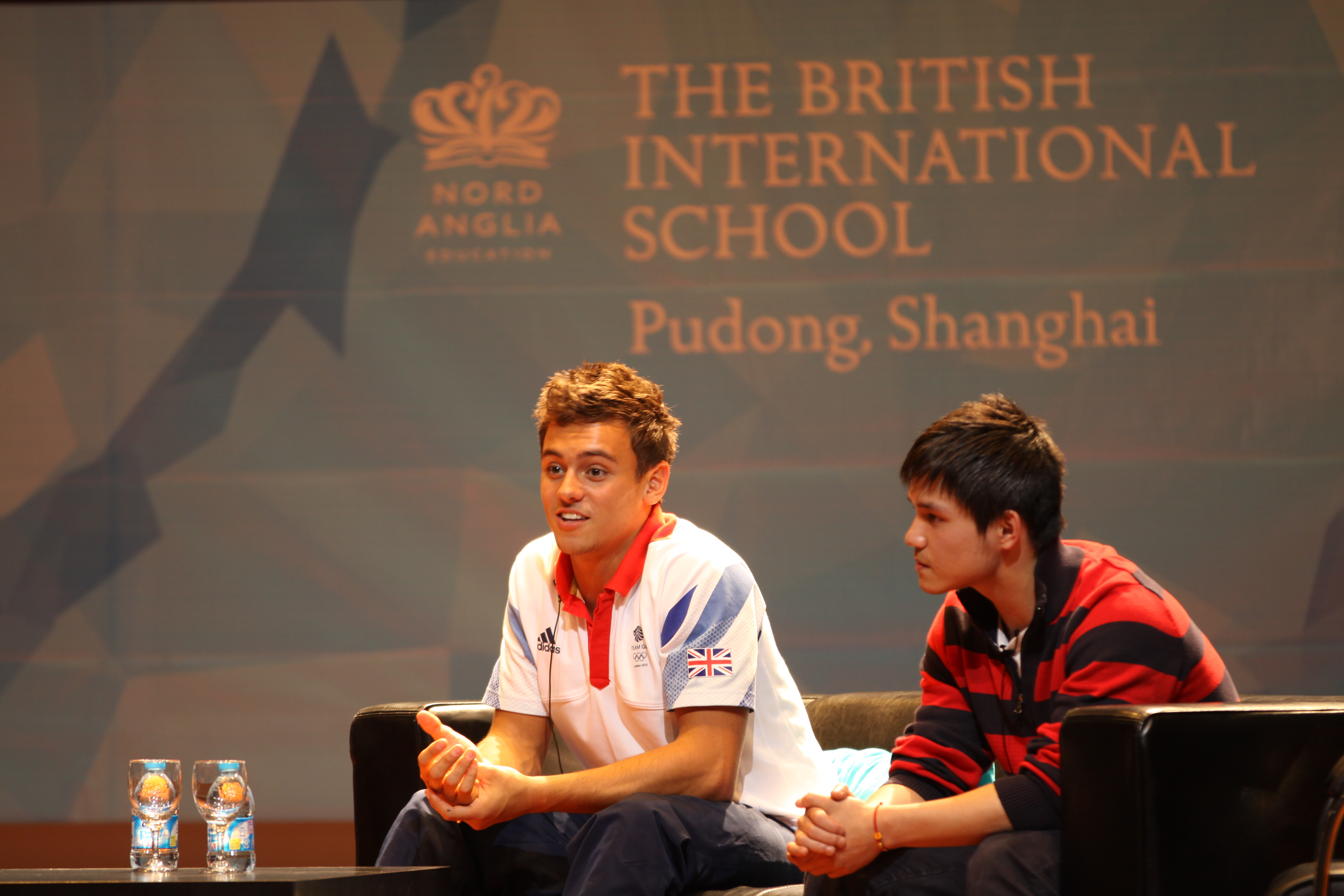 Tom Daley and Qiu Bo talking about their experiences at the London Olympics at the British International School, Shanghai Pudong Campus